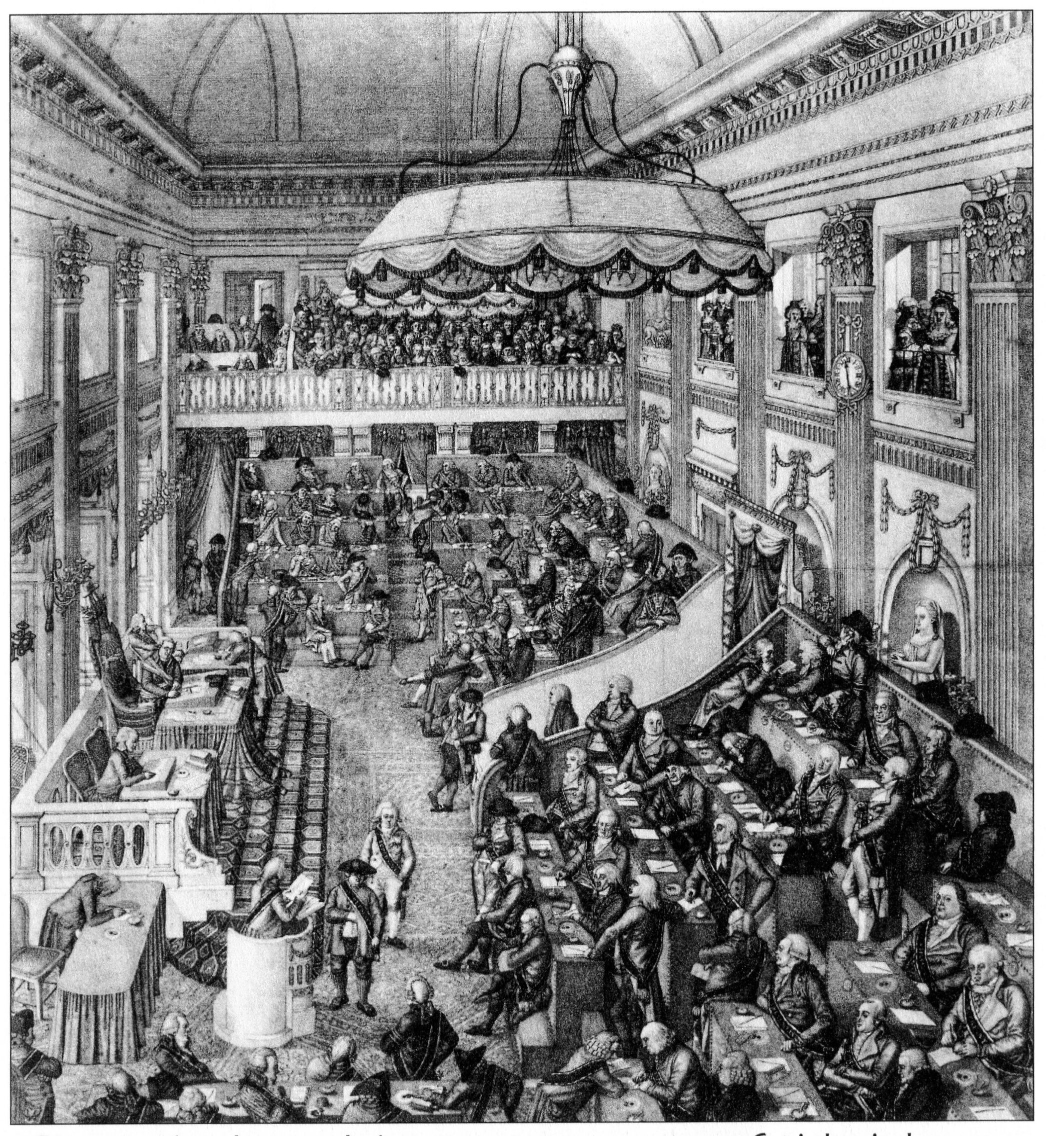 National Council 1796 Eerste Nationale Vergadering